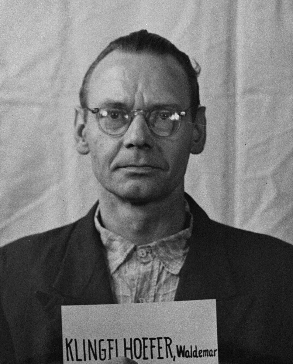 Waldemar Klingelhöfer (1900-1980), German SS-Officer of the Einsatzgruppen killing squads. This photograph of Klingelhöfer was taken by US Army photographers on behalf of the Office of Chief of Counsel for War Crimes (OCCWC) during Nuremberg Trial IX (Einsatzgruppen Trial / Einsatzgruppen-Prozess).